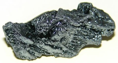 Iodine crystal, 0,1 g Iod in kristalliner Form.